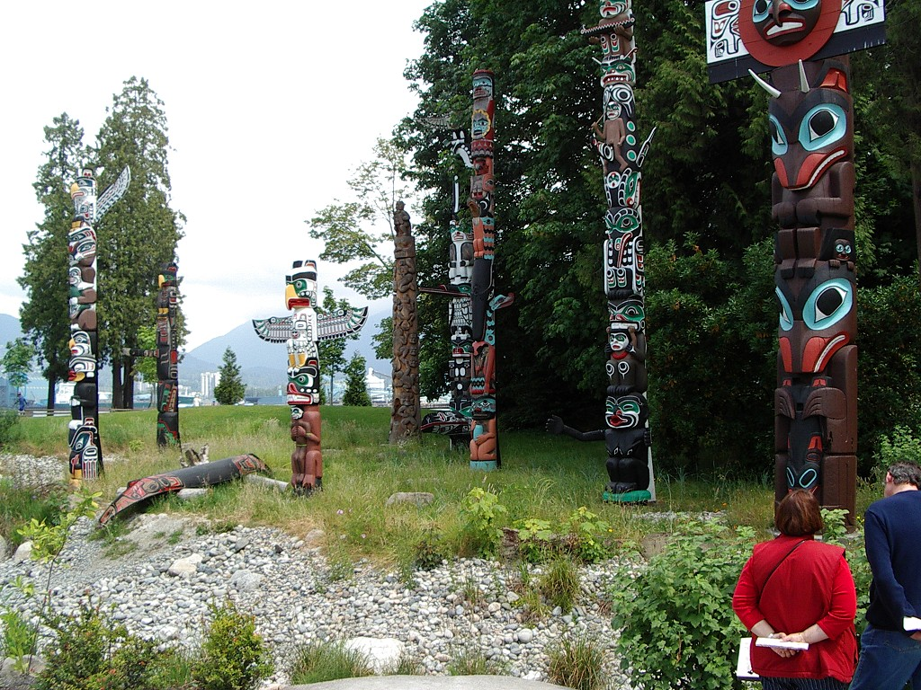 Totem-Poles in Stanley Park (Vancouver, British Columbia, Canada)